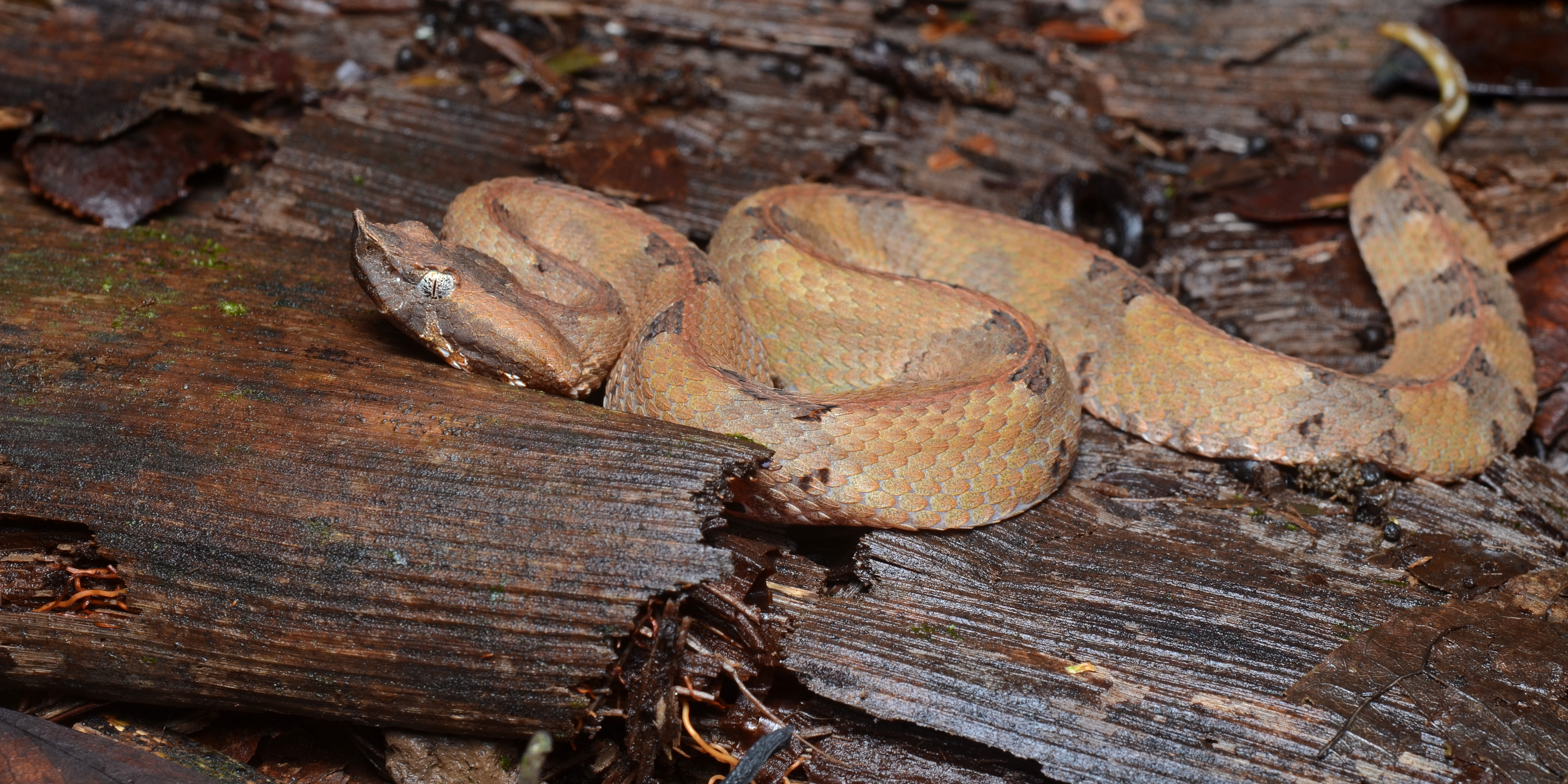 A hognose pit viper (Porthidium nasutum) at La Selva Biological Station, Sarapiqui, Costa Rica.